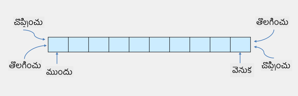 Doubly-ended queue in telugu